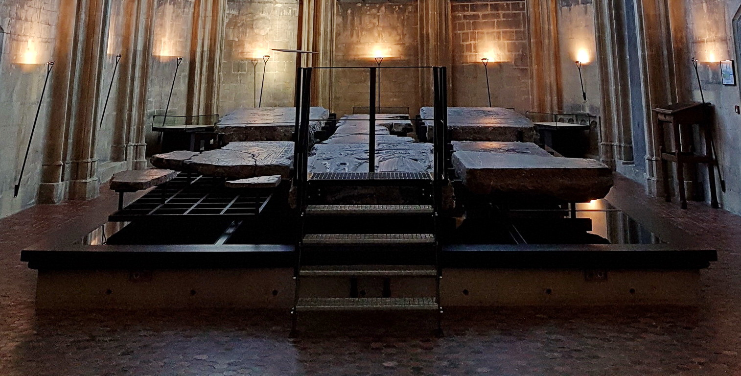 View of the choir of the former Minorite Church (Oude Minderbroederskerk) in Maastricht, the Netherlands. The church was the oldest of three Franciscan or Minorite churches in Maastricht and is now in use as the city's and regions' archives (RHC Limburg). The choir is occasionally used for exhibitions. The ledger stones in the centre are on permanent display.